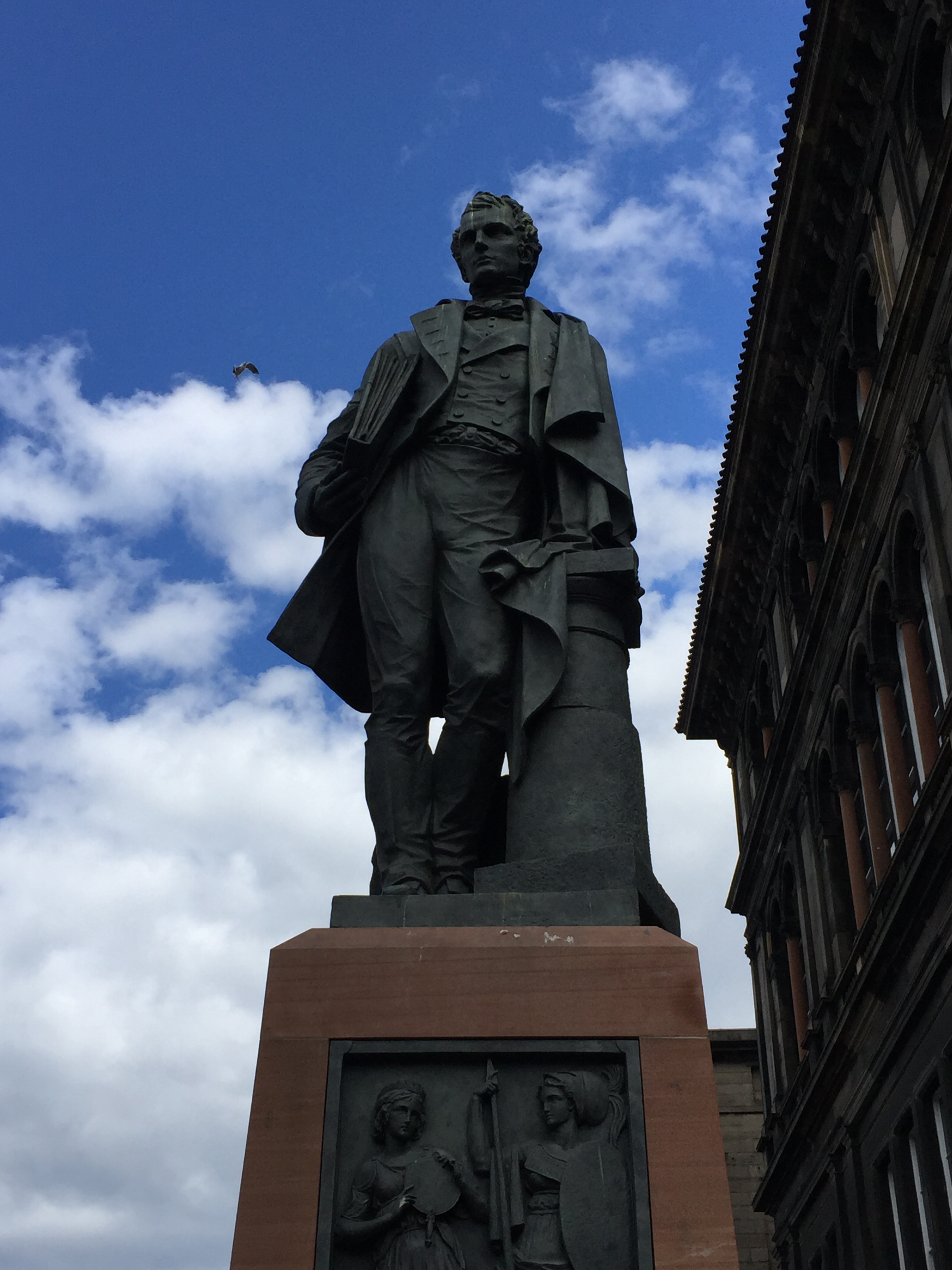 Statue of William Henry Playfair by Alexander (Sandy) Stoddart, erected in 2016. Photo in 2019